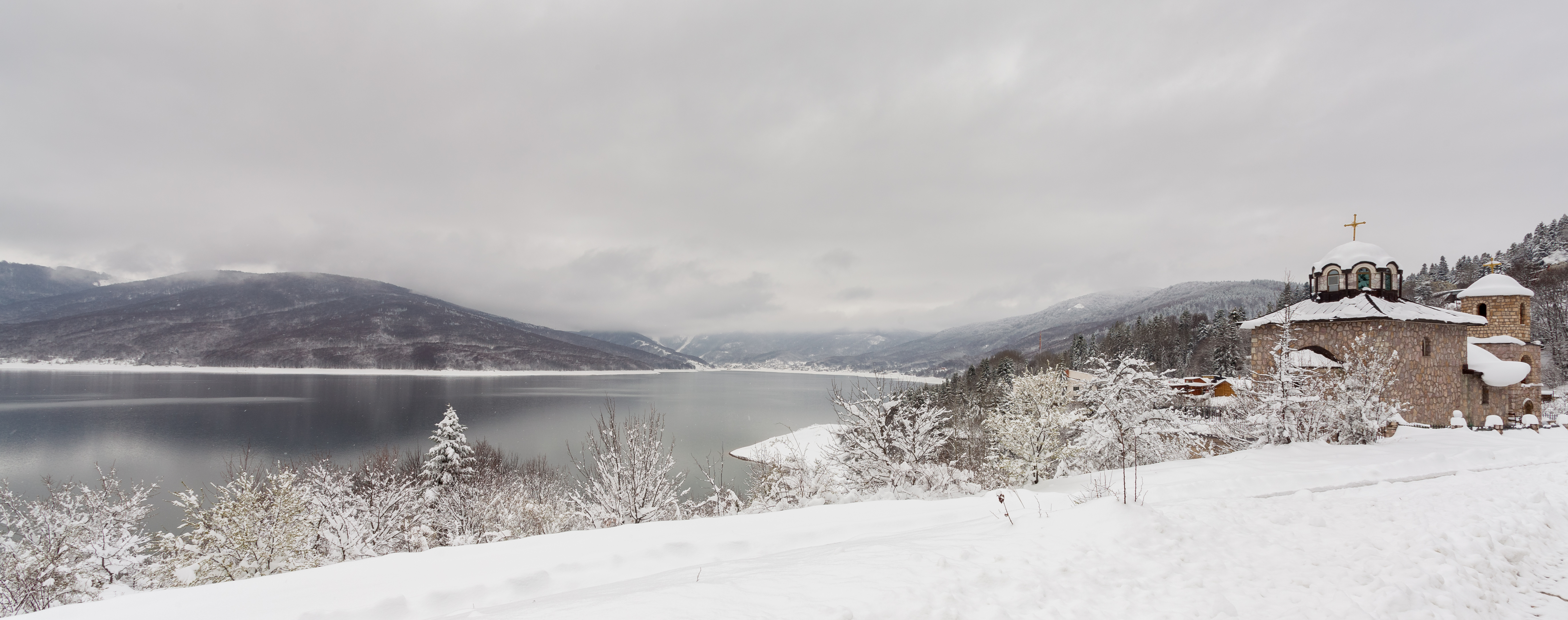 Sts. Cyril and Methodius Church (Mavrovi Anovi), Mavrovi Anovi, Macedonia